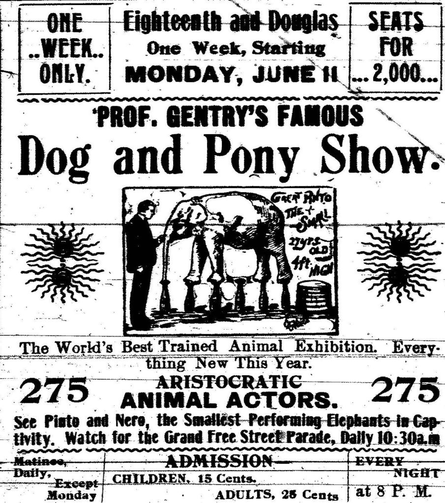 Advertisement for Professor Gentry's Famous Dog and Pony Show from the Omaha Bee of June 10, 1900. Text: ONE WEEK ONLY. Eighteenth and Douglas One Week Starting MONDAY, JUNE 11. SEATS FOR 2000. Prof. Gentry's Famous Dog and Pony Show The World's Best Trained Animal Exhibition. Every- thing New This Year. 275 ARISTOCRATIC ANIMAL ACTORS 275 See Pinto and Nero, the Smallest Performing Elephants in Cap- tivity. Watch for the Grand Free Street Parade, Daily 10:30a.m. Matinee Daily, Except Monday ADMISSION CHILDREN 15 cents, ADULTS 25 cents EVERY NIGHT at 8 P.M.